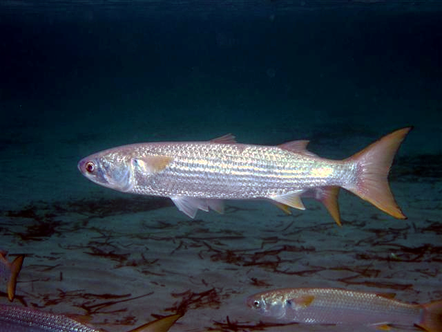 Mugil cephalus photographed on Minorca (Spain) sea.